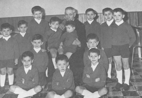 Picture of Don Baronio with the group of students of the institute of Savigliano sul Rubicone